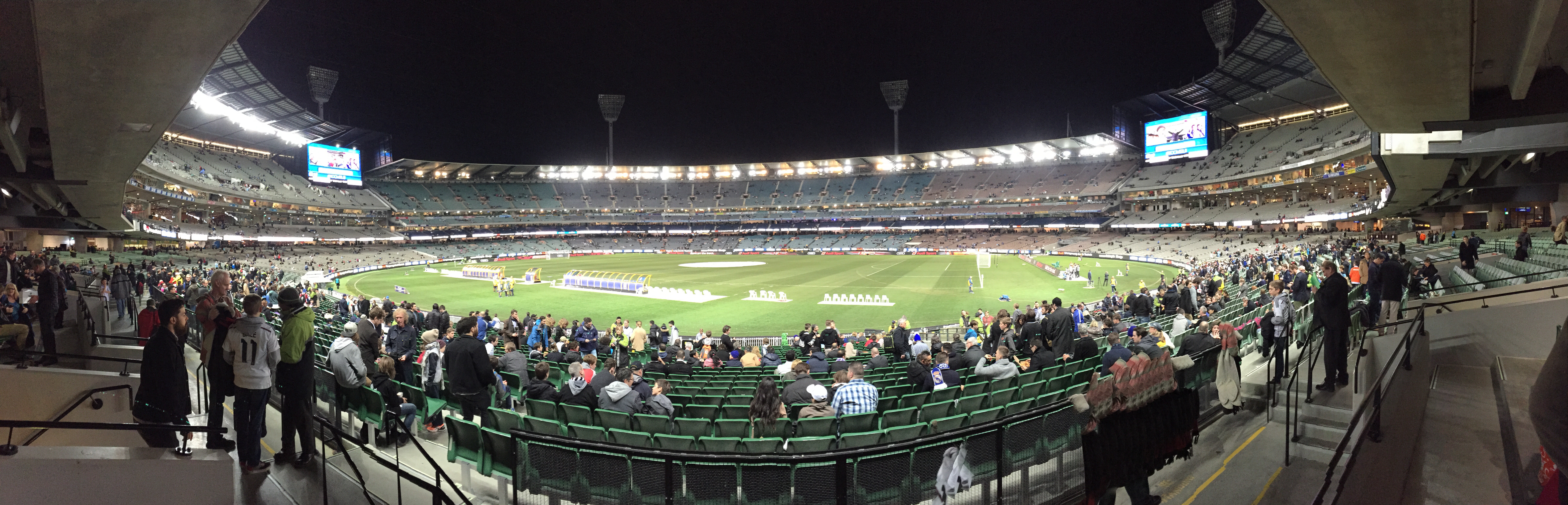 Panorama image of the Melbourne Cricket Ground, as viewed from the ground level, in soccer mode prior to a match.